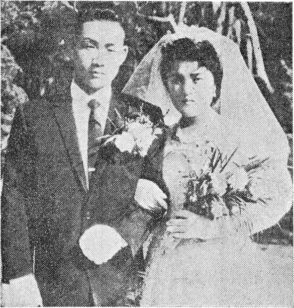 Chun Doo-hwan and Lee Sun-ja Married in 1958, Daegu Stadium